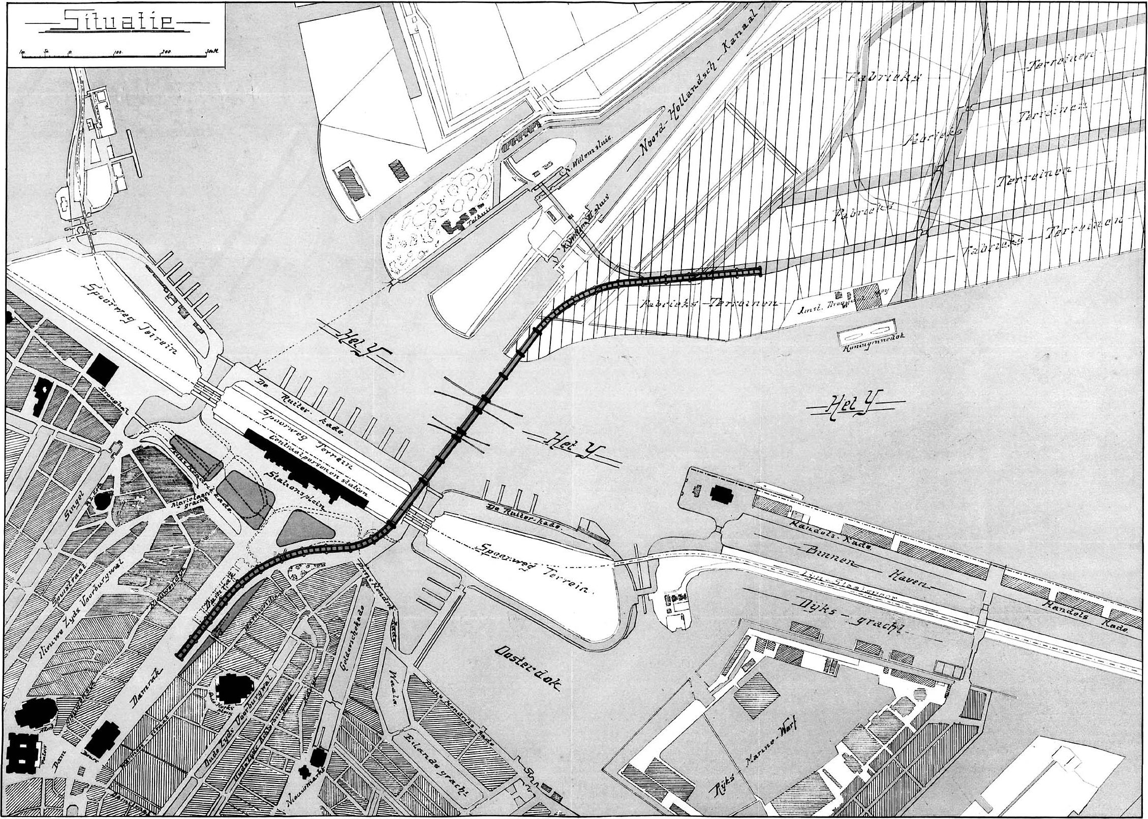 Design for a bridge of the IJ, Amsterdam, situation.